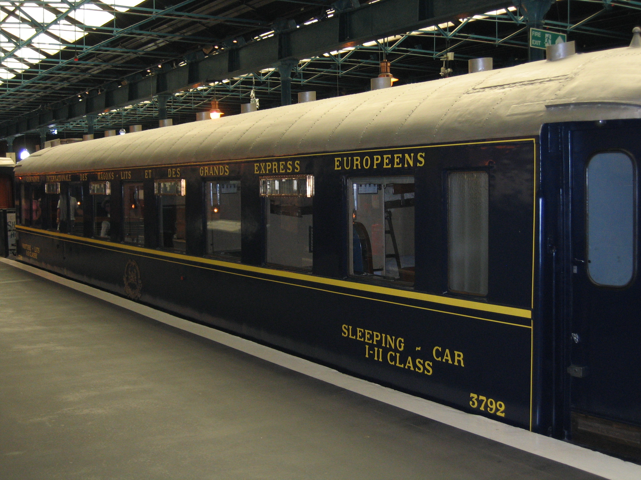 Night Ferry type F Sleeping-Car, National Railway Museum, York, Great-Britain